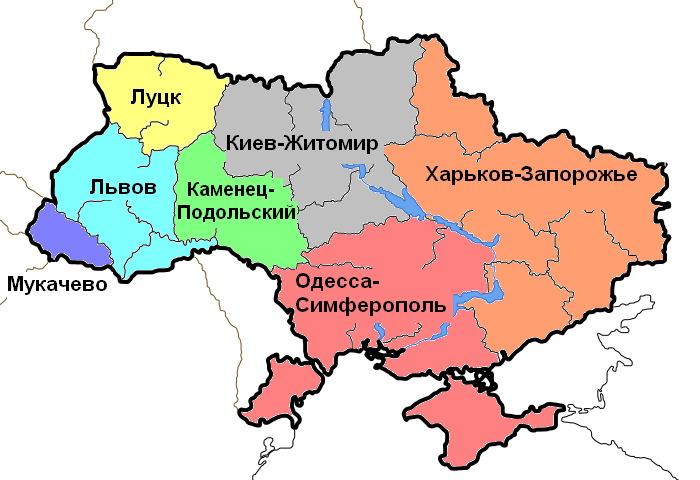 Map of roman-catholic dioceses in Ukraine. Russian names